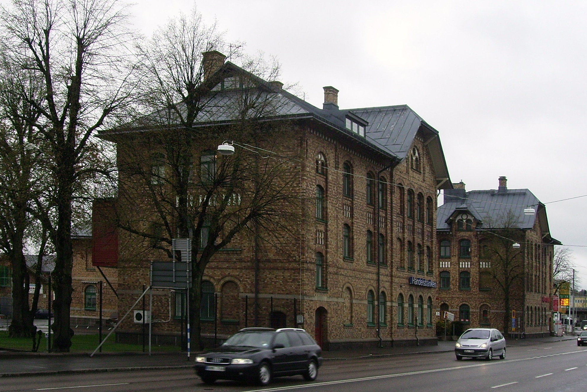 Picture of Partihallarna in Göteborg